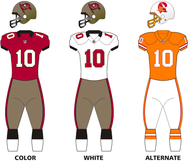 Uniforms worn by the NFL team Tampa Bay Buccaneers during the 2012 season.